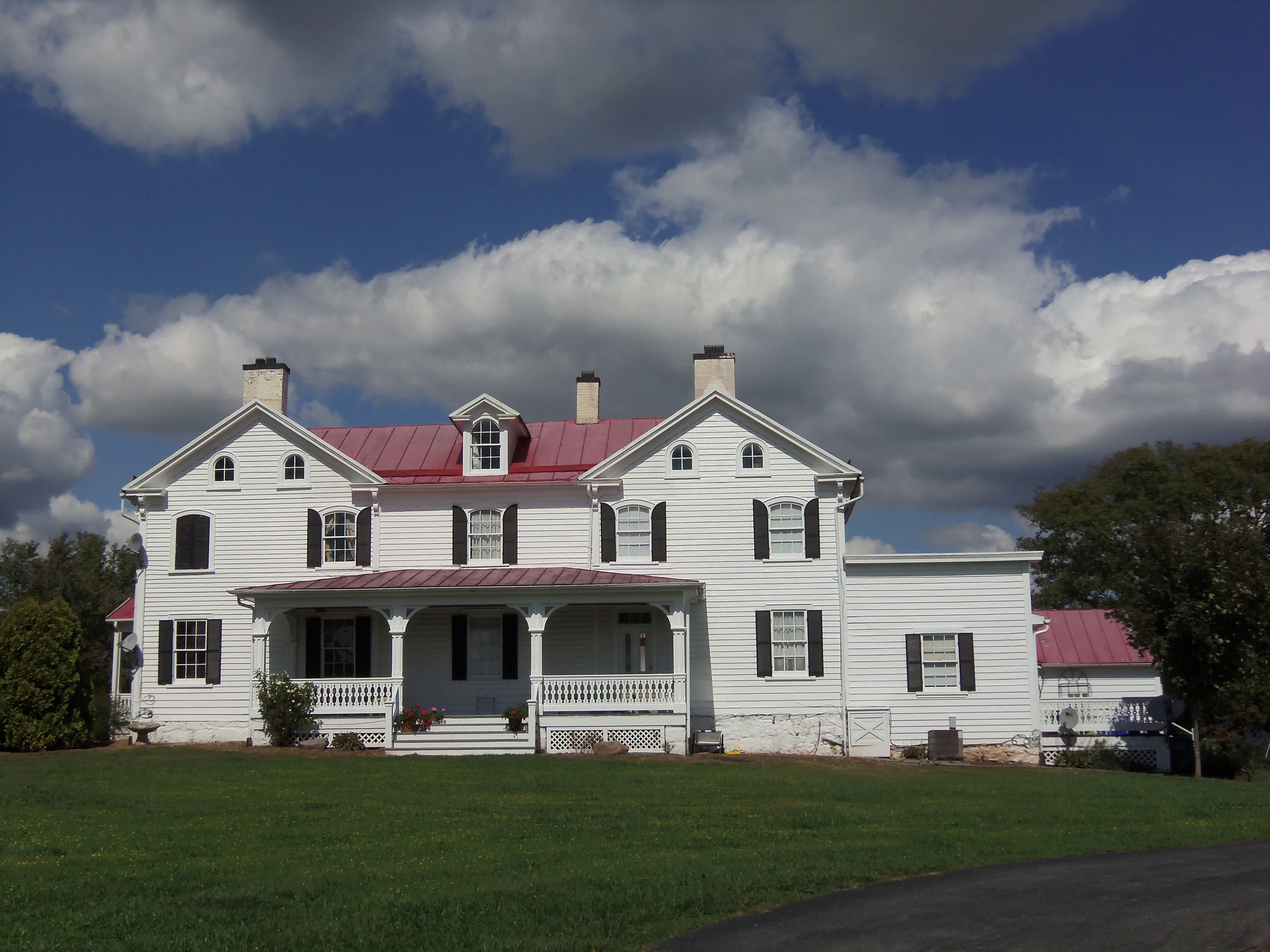 Susanna Farm near Dawsonville, Maryland